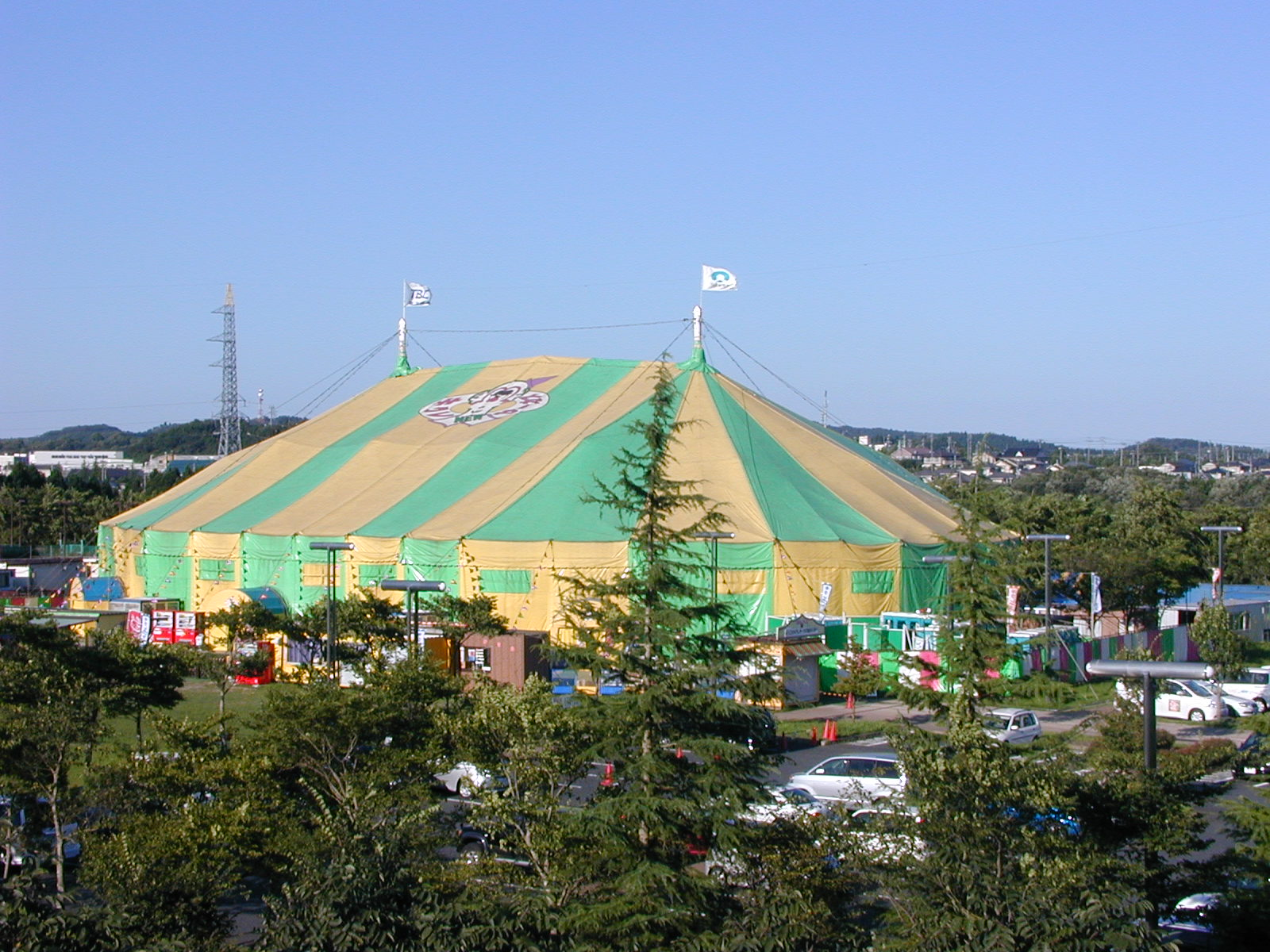 Tent of the Kigure New Circus on Sendai tour in Miyagi Sports Park